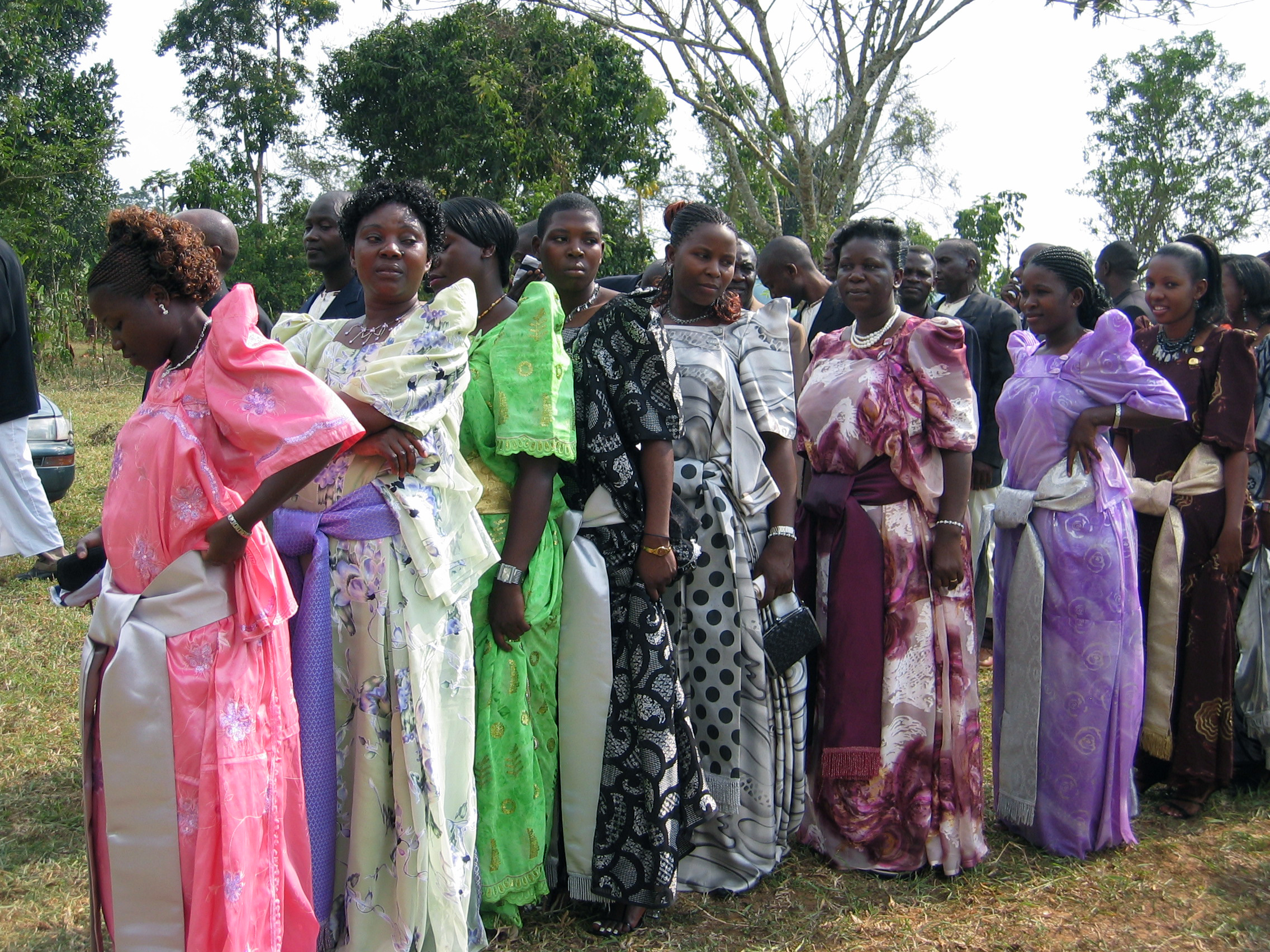 The women of the groom's clan line up for the procession